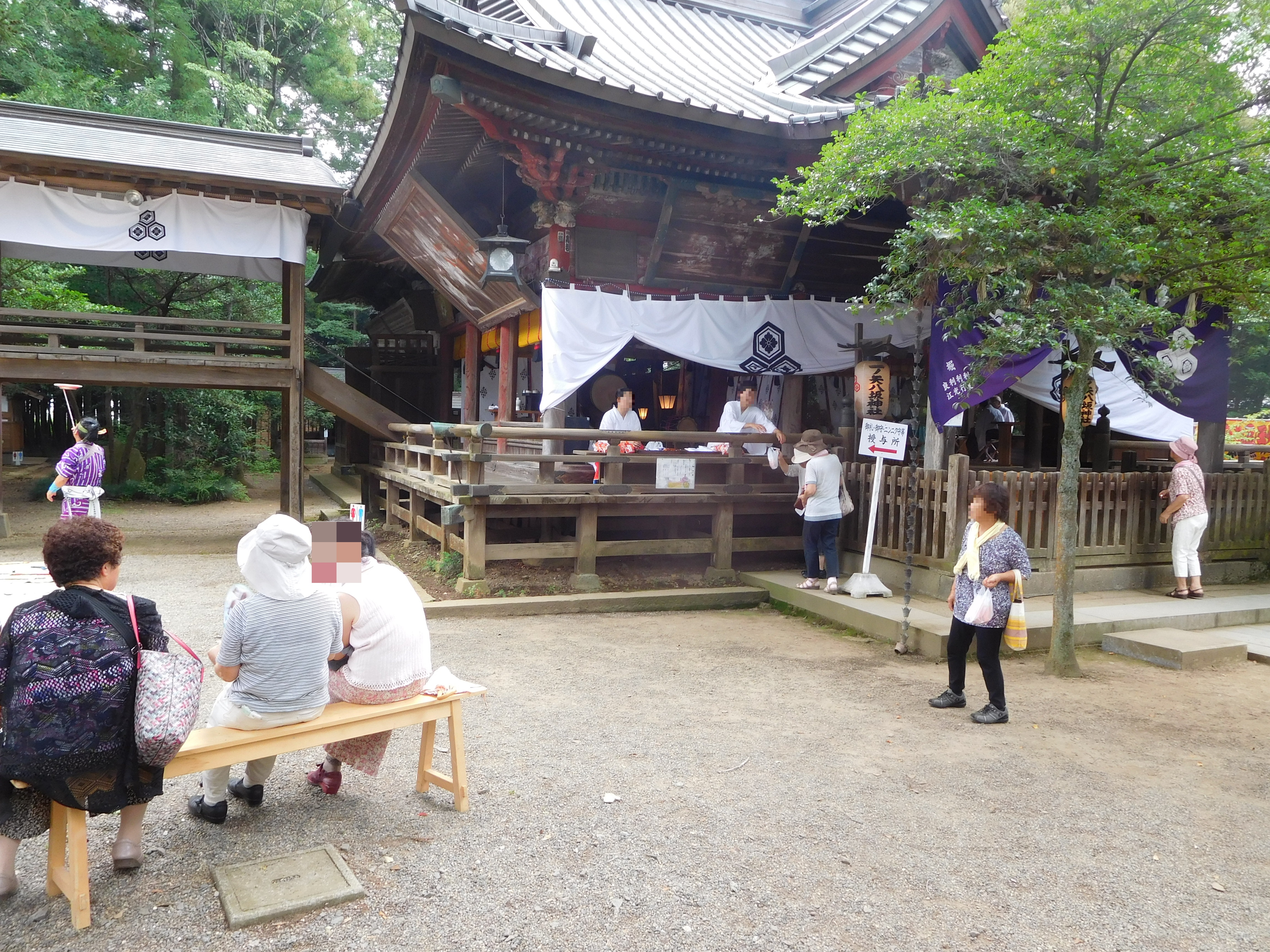 This is a scene of Garlic Festival of Ichinoya Yasaka shrine in Tsukuba, Ibaraki, Japan.